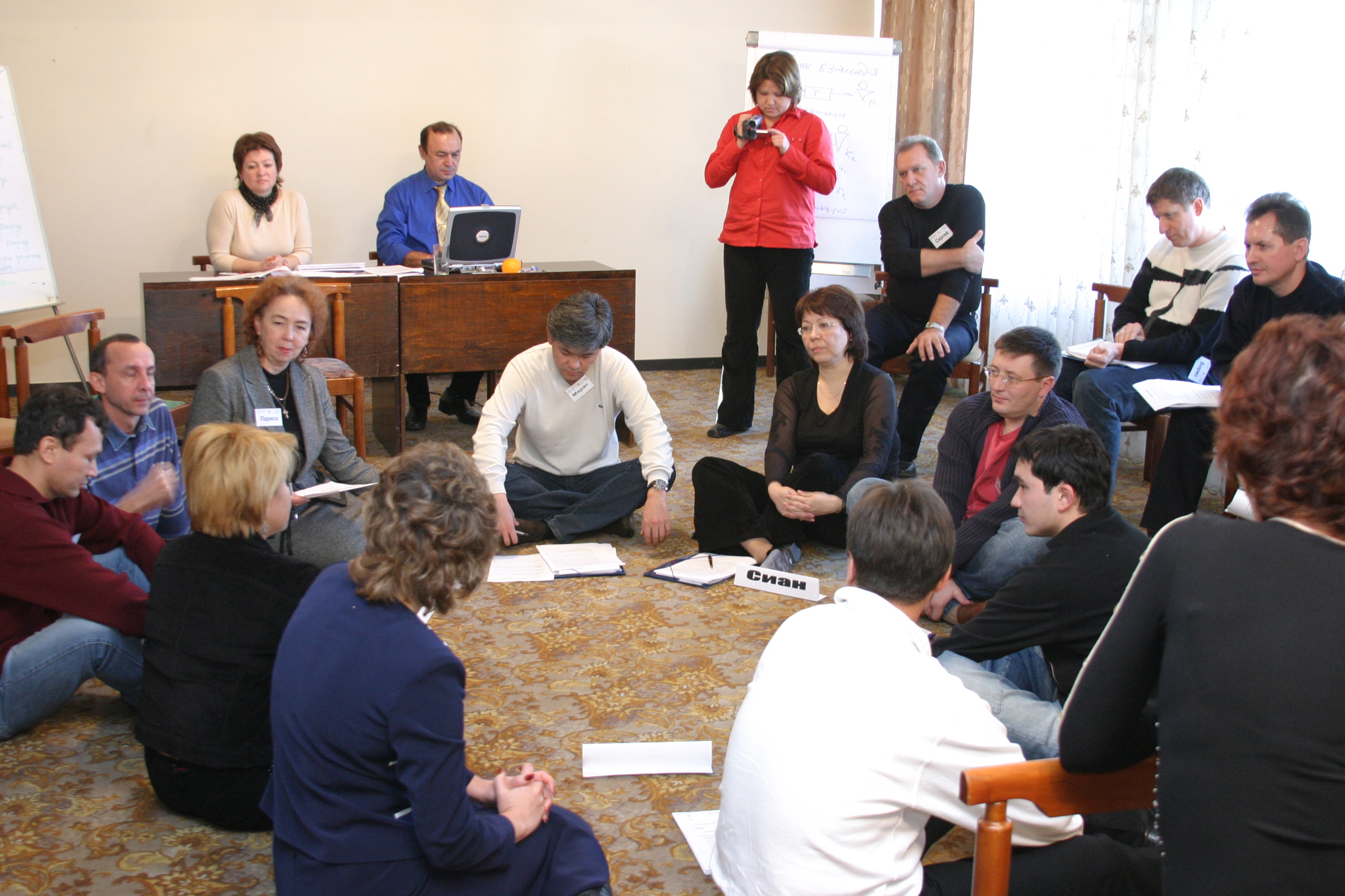 Trainings in International Academy of Business.